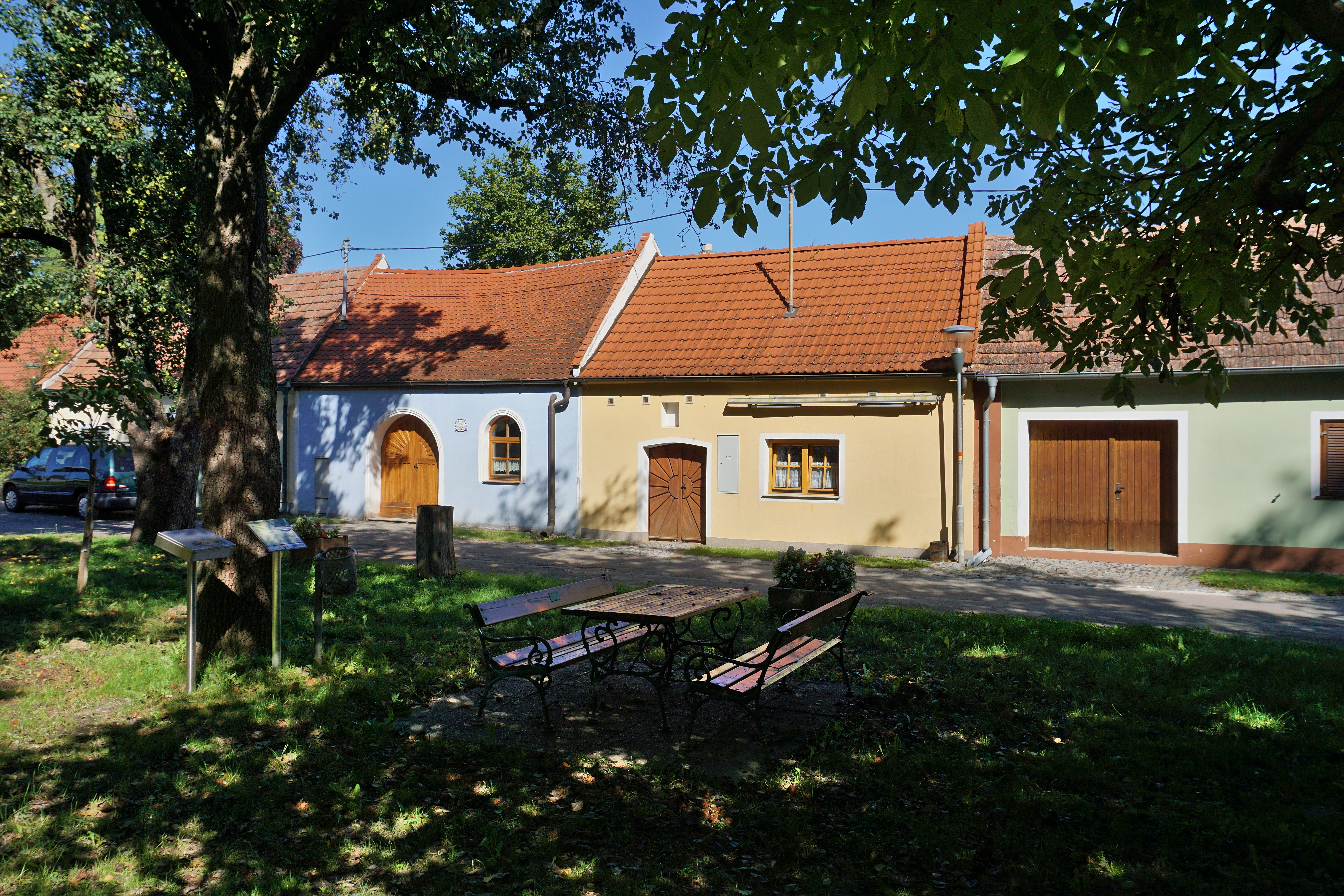 Kellergasse Moosbierbaum